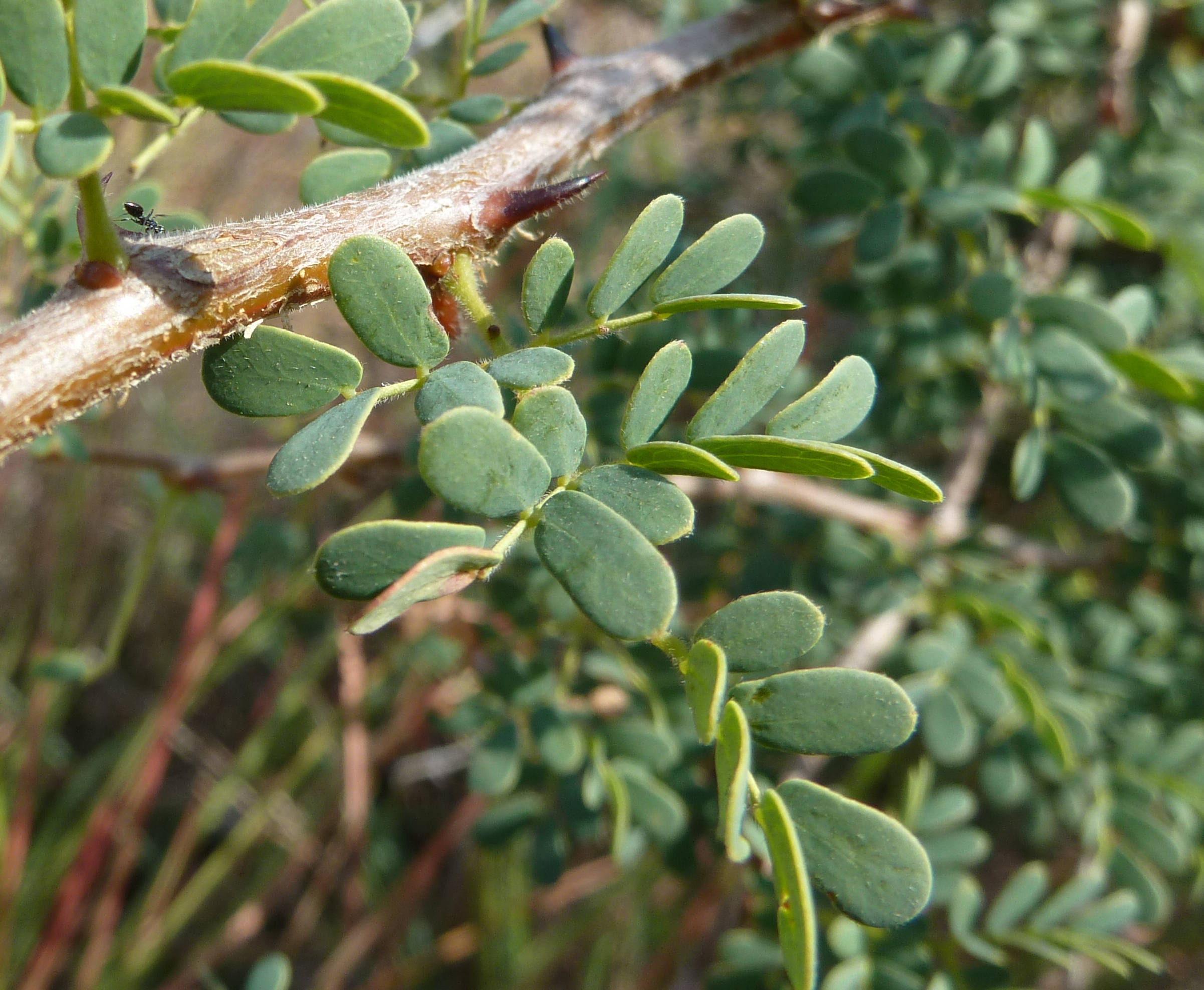 Foliage and thorns of a Black thorn on the Phalandingwe trail, Pelindaba